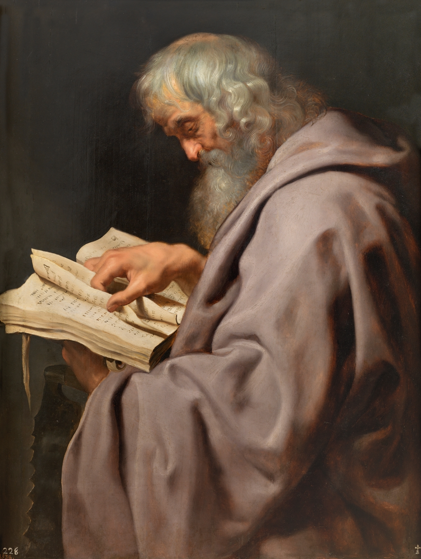 from Rubens famous Twelve Apostles series